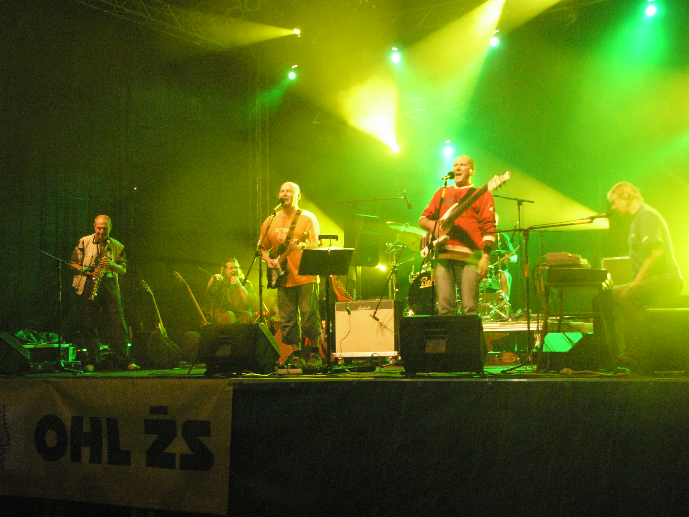 Czech music band Buty in June 2007 in Olomouc (Czech Republic).